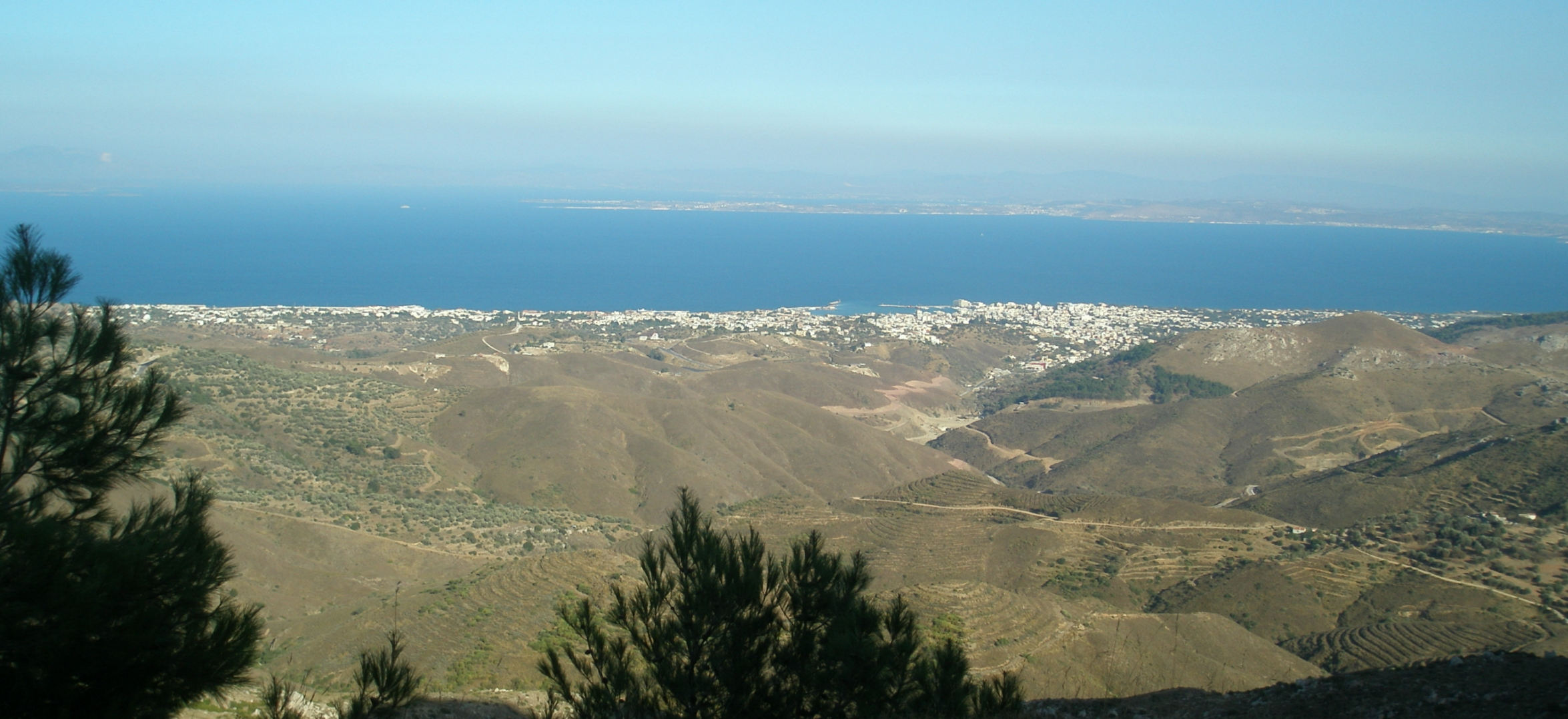 Panoramic view of the town of Chios. Asia minor at the background